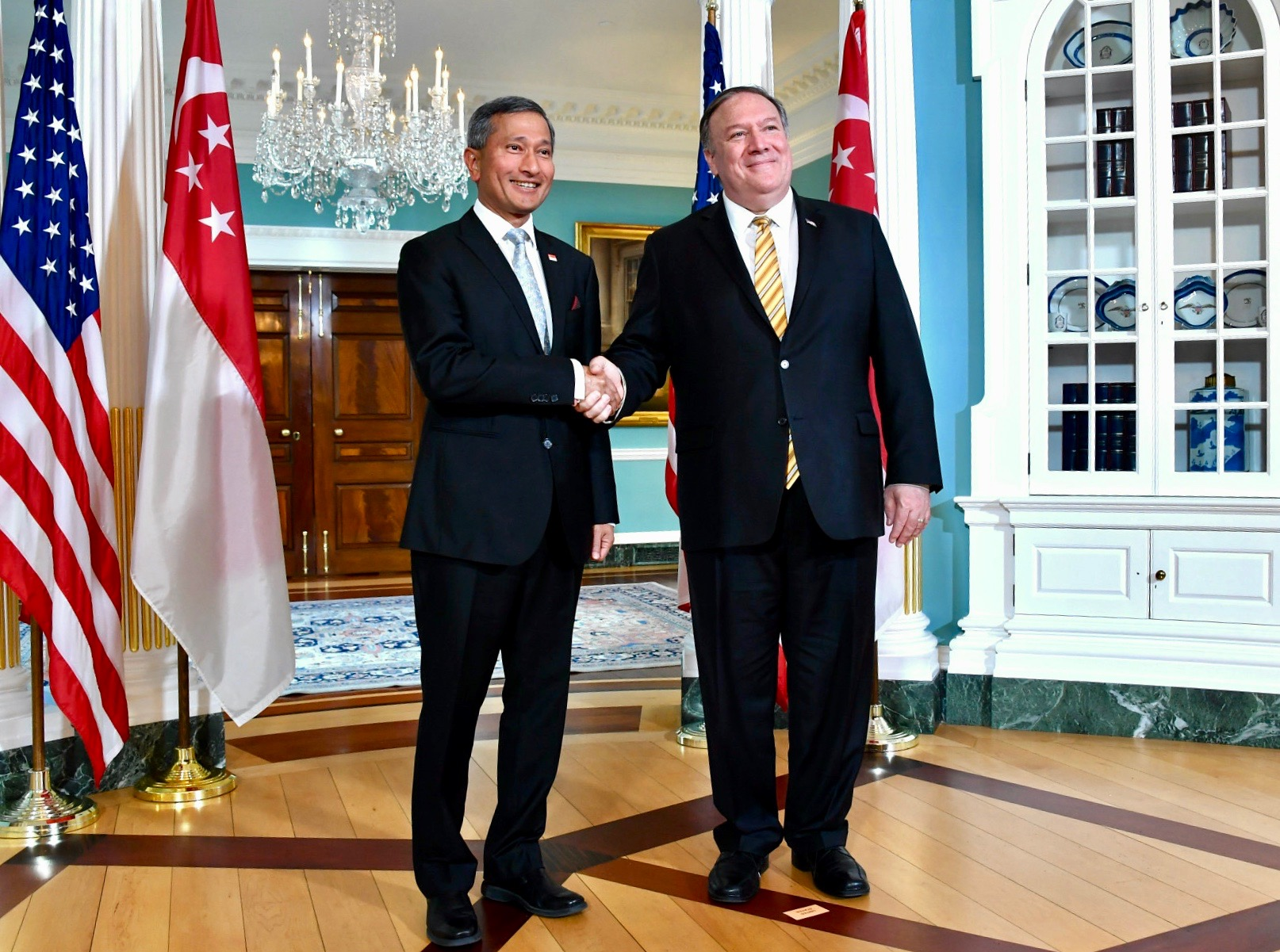 U.S. Secretary of State Michael R. Pompeo meets with Singaporean Foreign Minister Vivan Balakrishnan at the U.S. Department of State in Washington, D.C., on May 16, 2019. [State Department photo by Michael Gross/ Public Domain]